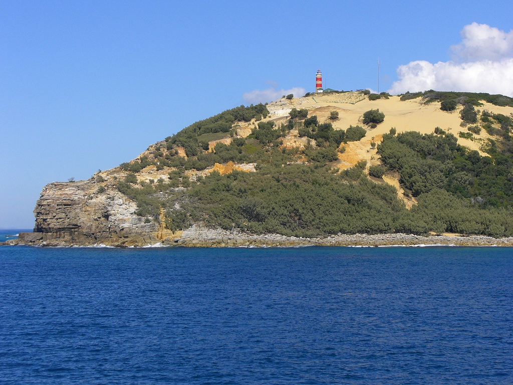 Lighthouse on Moreton Island, Queensland, Australia